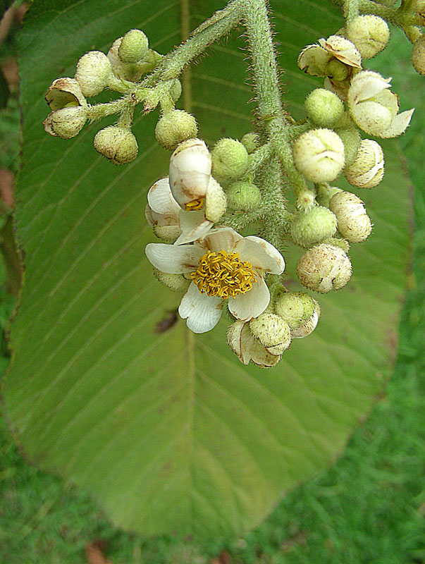 Native to the Colombian highlands. In context at